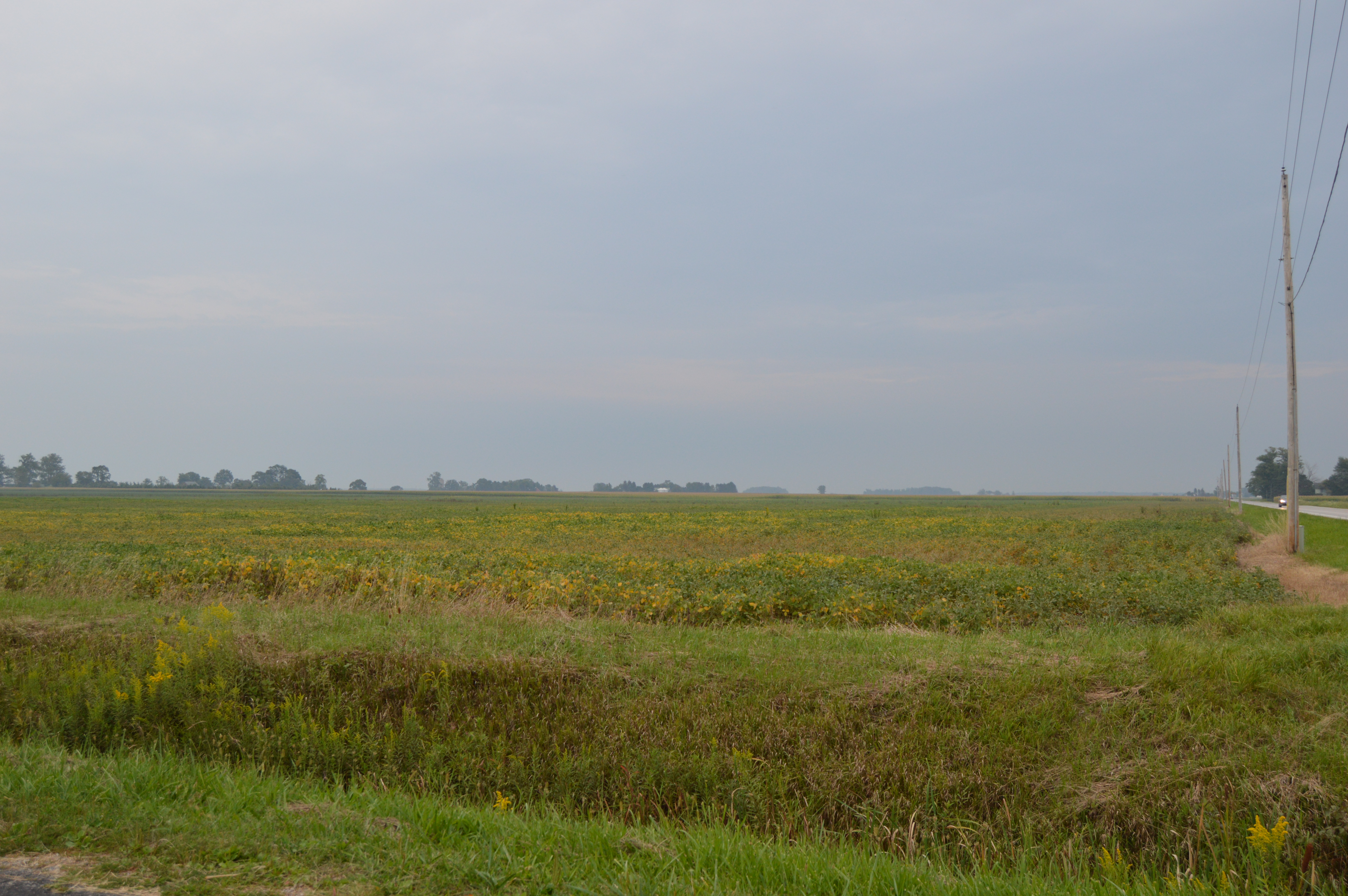 Looking eastward from the junction of State Route 281 and Milton Road east of Custar in Milton Township, Wood County, Ohio, United States.